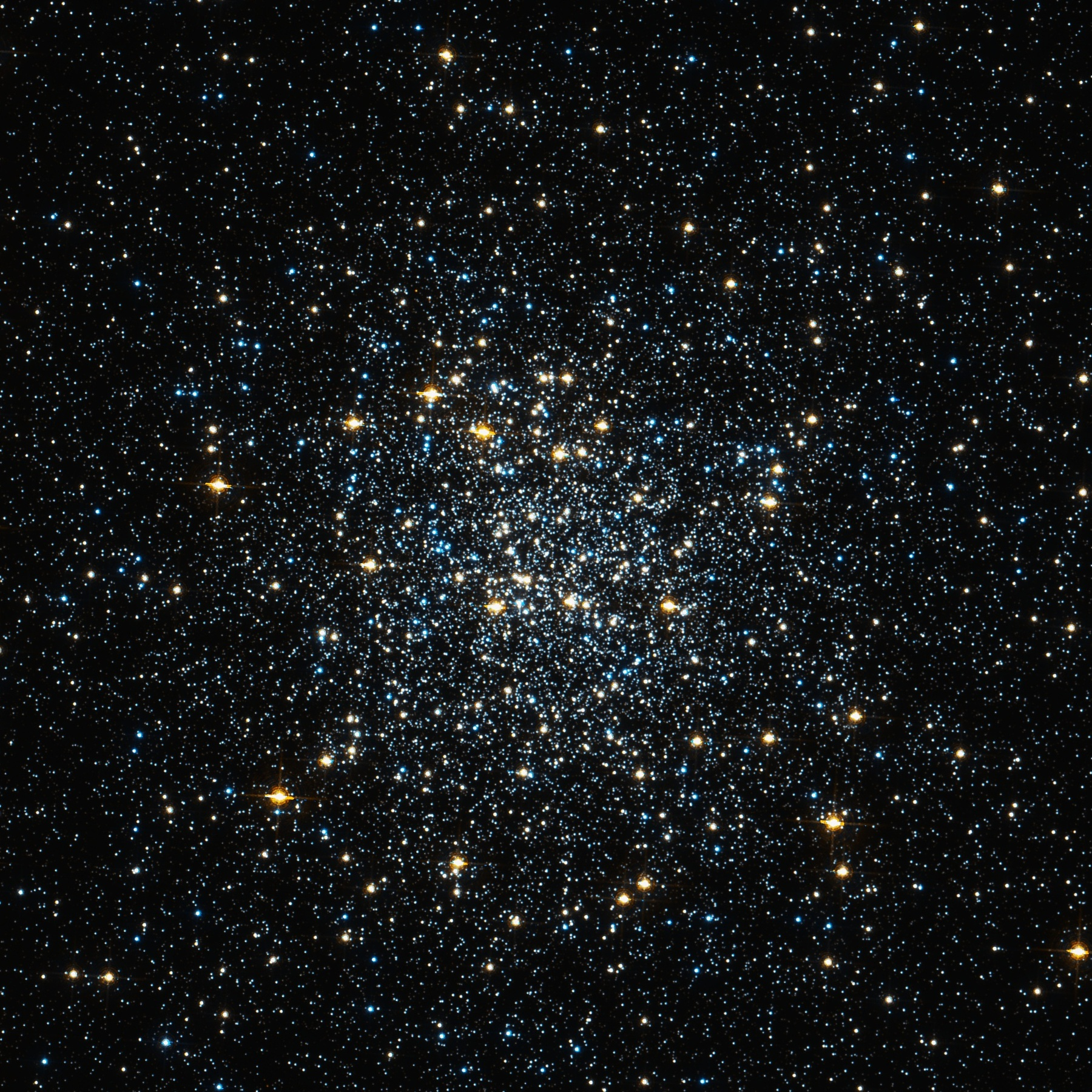 Messier 92 globular cluster by Hubble Space Telescope; 1.44′ view